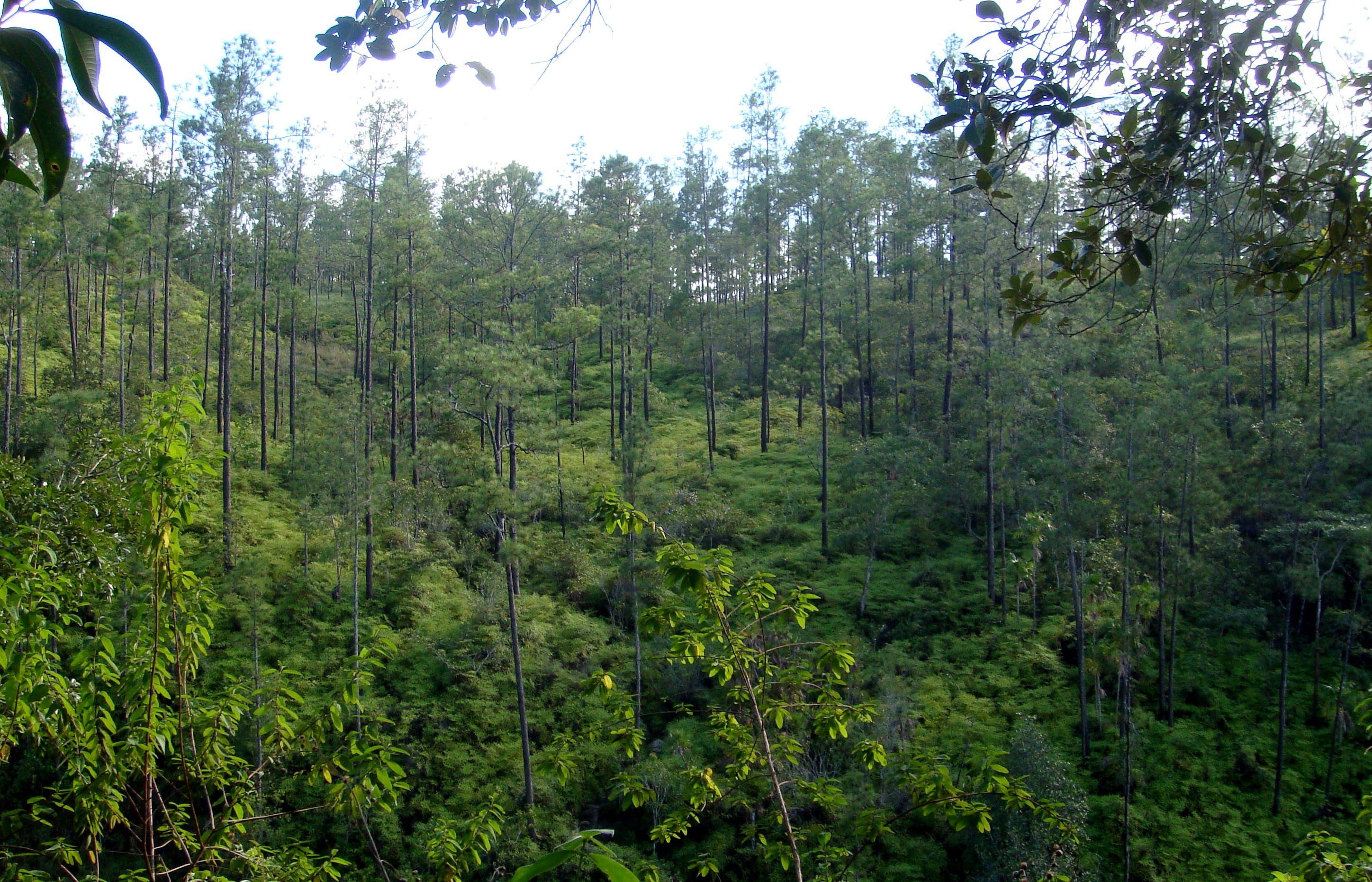 Pinus hondurensis forest, Othon P. Blanco, Quintana Roo, Belize.